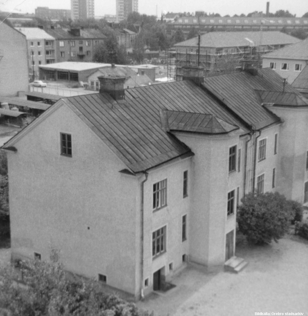 Åbackegatan 6-8, Örebro, Sweden